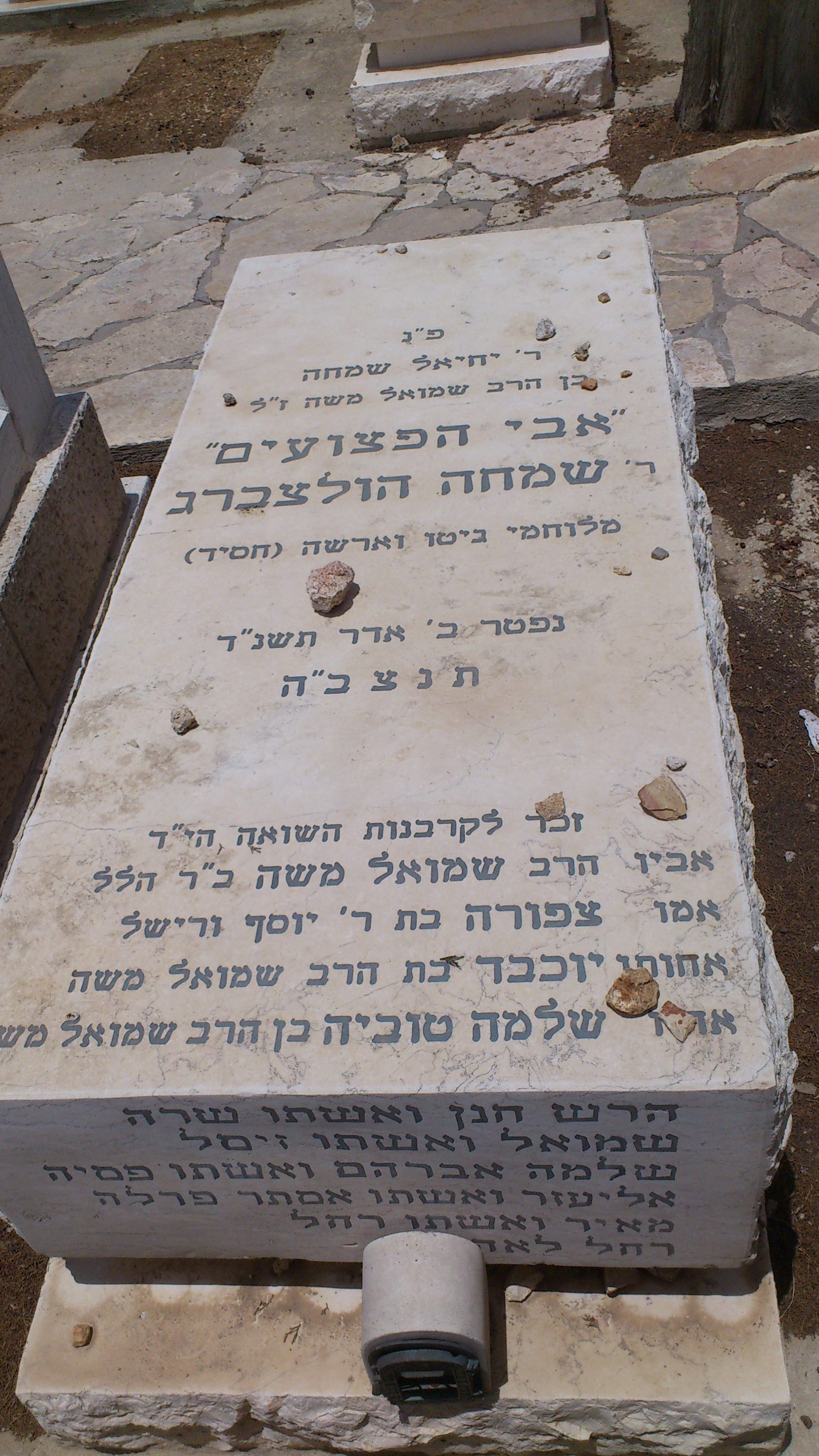 Simcha Holtzberg